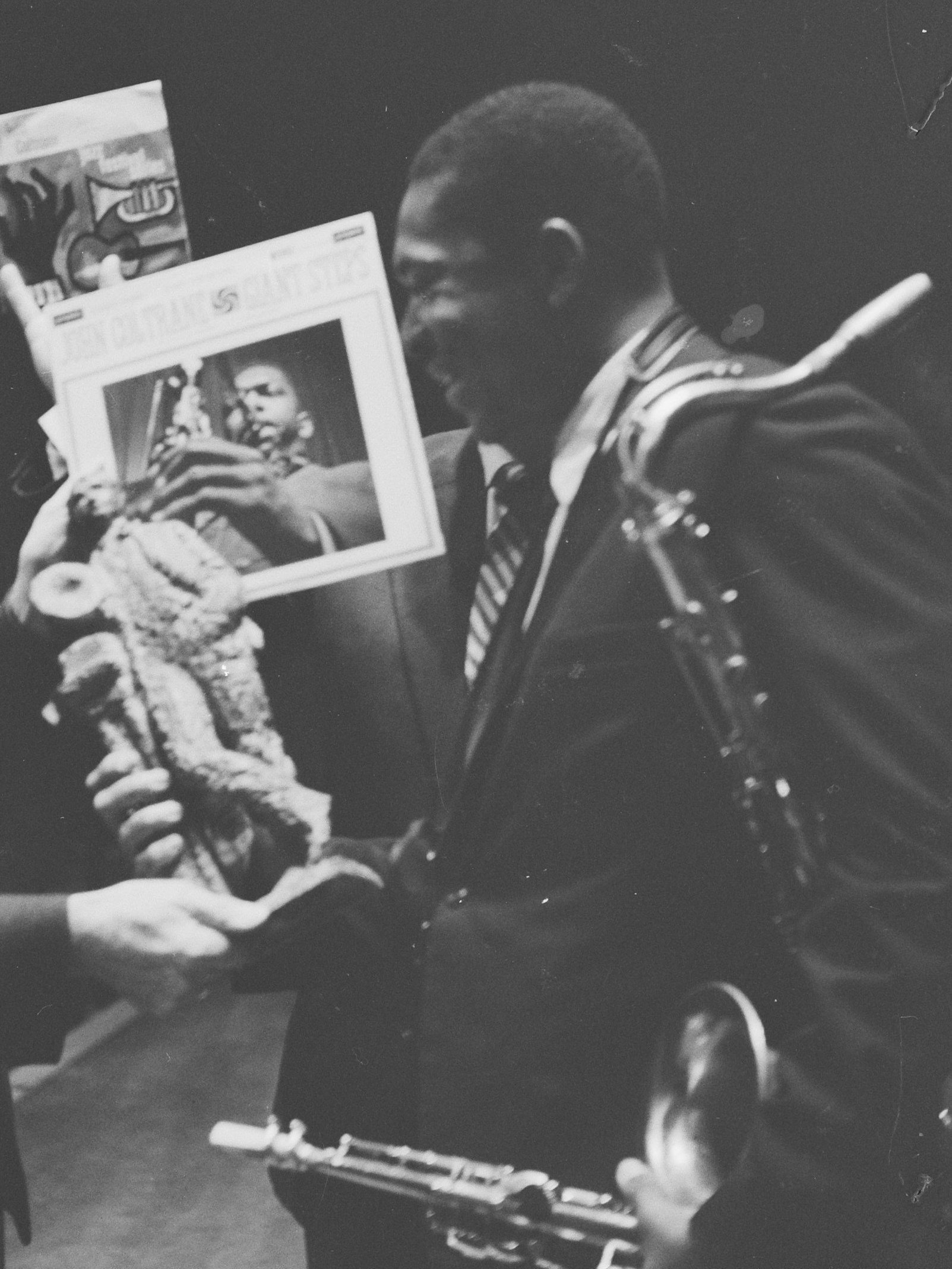 John Coltrane receives Edison Award (album Giant Steps), Concertgebouw, Amsterdam, the Netherlands, 20 November 1961. Cropped image